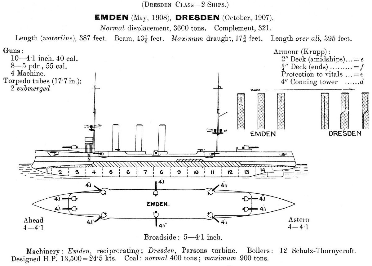 Diagrams depicting left elevation and deck plan of German Dresden class cruiser. Measurements are given in feet and inches.